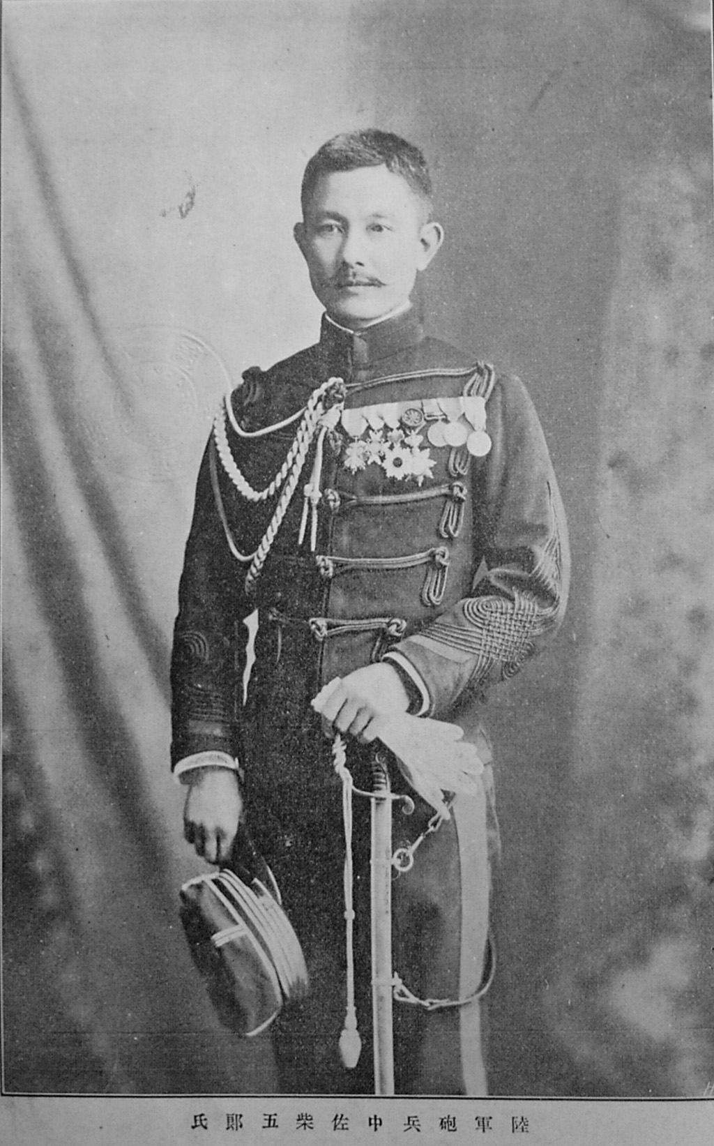 Portrait of Shiba Goro (柴五郎, 1859 – 1945)